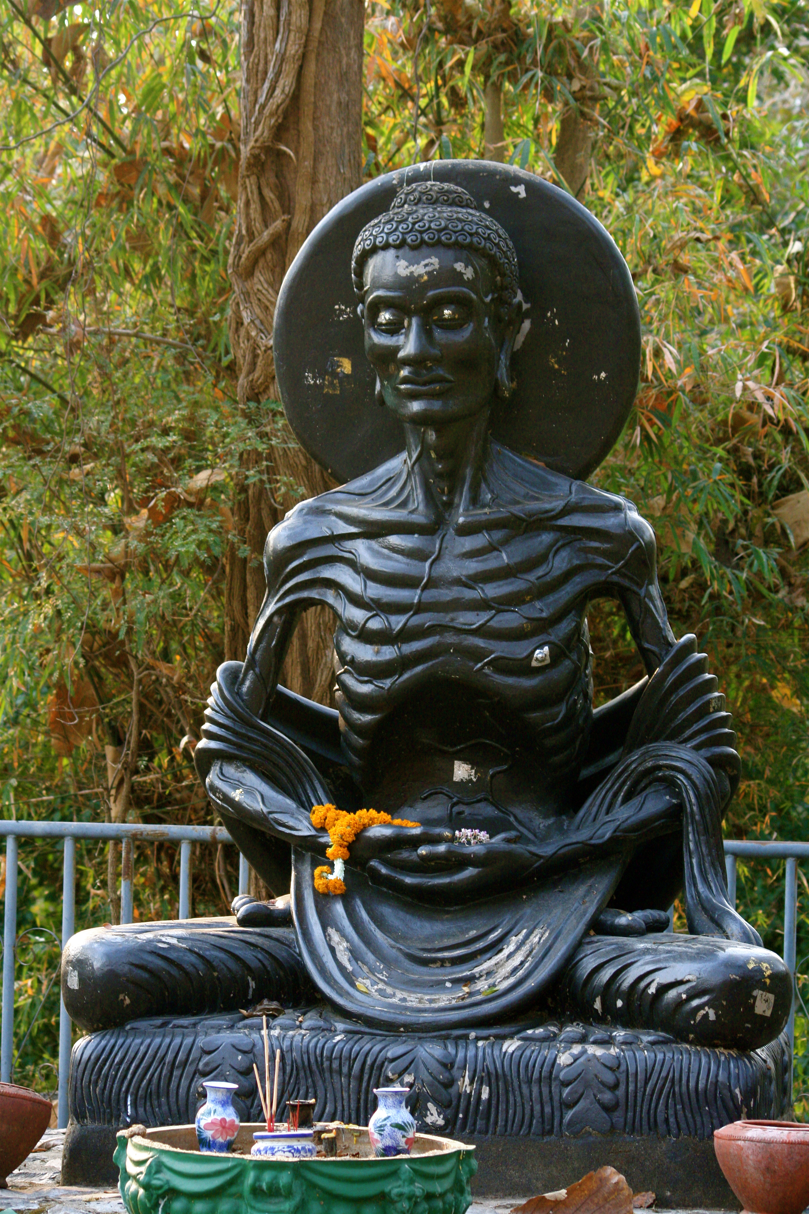 Asceticism, Sramana traditions, Shramanic austerities, Wat Umong, Chiang Mai, Thailand